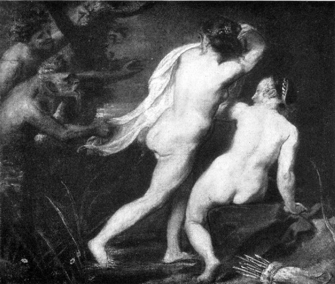 Dyck nymphes&satyres-detruit